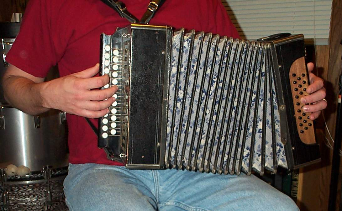 Garmon' (гармонь) ca. 1930. Made by Ganinskaya (Ганинская) factory, USSR.